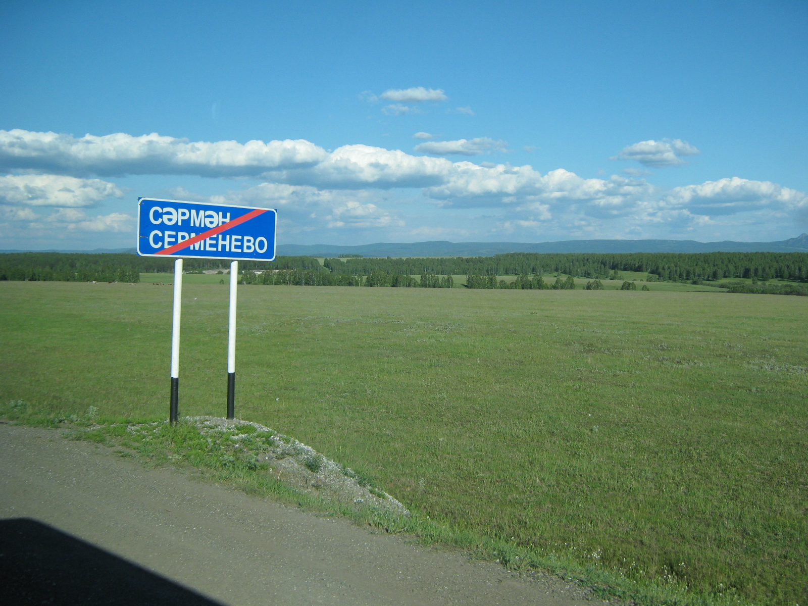 Bilingual sign in Bashkortostan in Bashkir (on the top) and Russian near Sermenevo